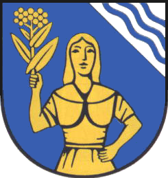 Coat of Arms of Emleben